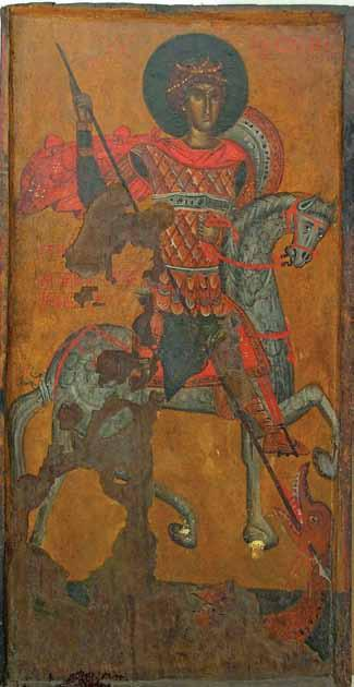 Icon of St. George killing the dragon, third quarter of the 15 th century, Struga, in St. George church in Struga, Macedonia